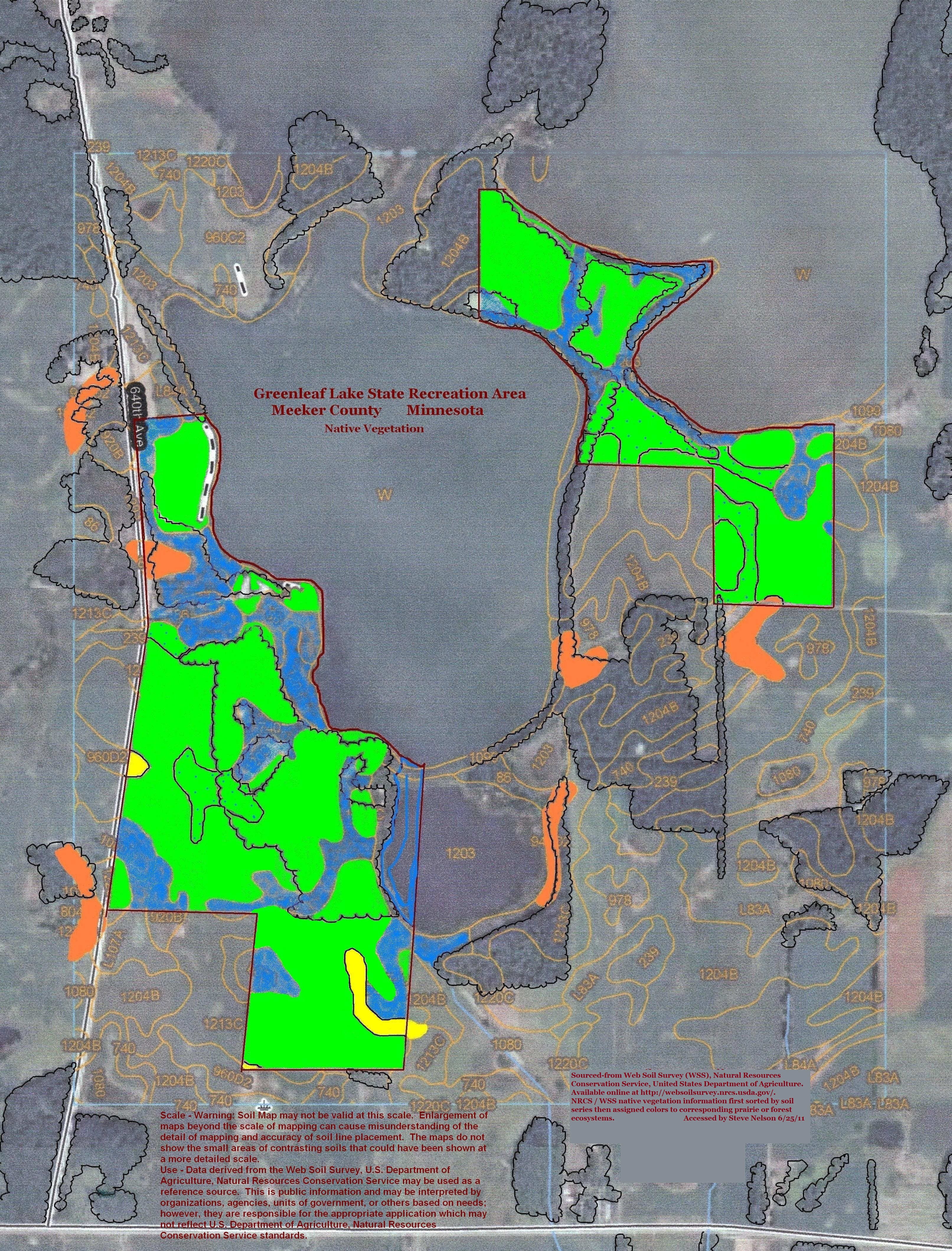 Map shows native vegetation based on soils of Greenleaf Lake State Recreation Area (SRA) in Meeker County Minnesota. Meeker County has a small percentage of forest soils and made up mostly of savanna and prairie soils.